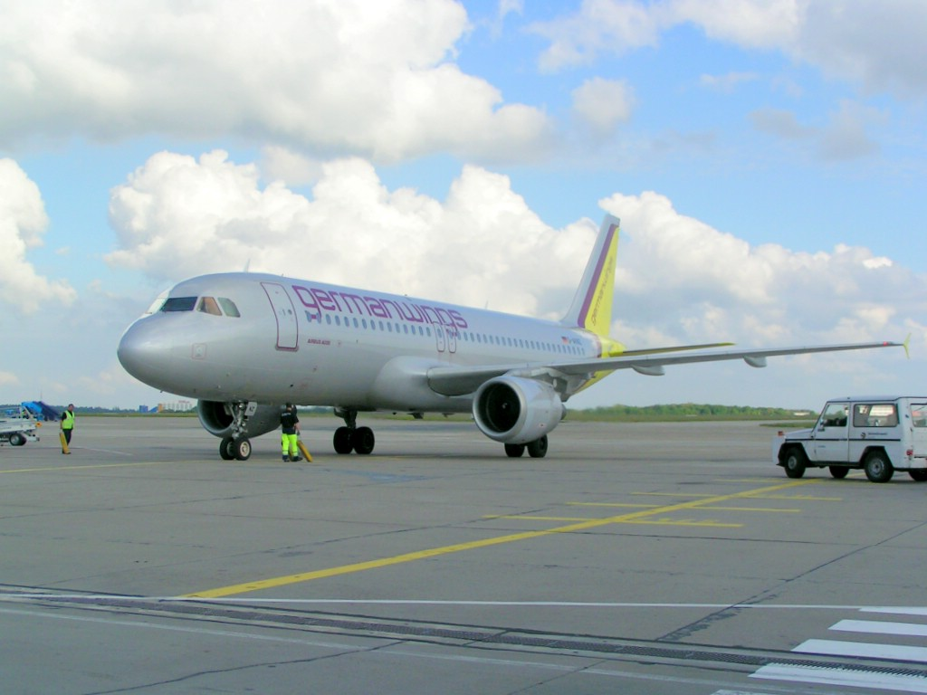 Germanwings Airbus A320-212 (D-AKNZ) at Berlin-Schönefeld in May 2005